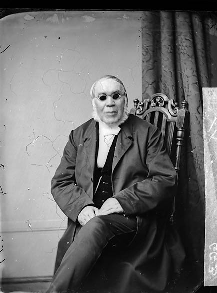 1 negative : glass, wet collodion, b&w ; 10.5 x 8 cm.